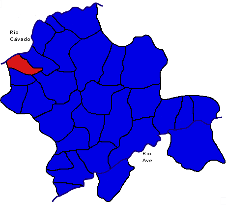 Map of Aguas Santas in Povoa de Lanhoso, Portugal